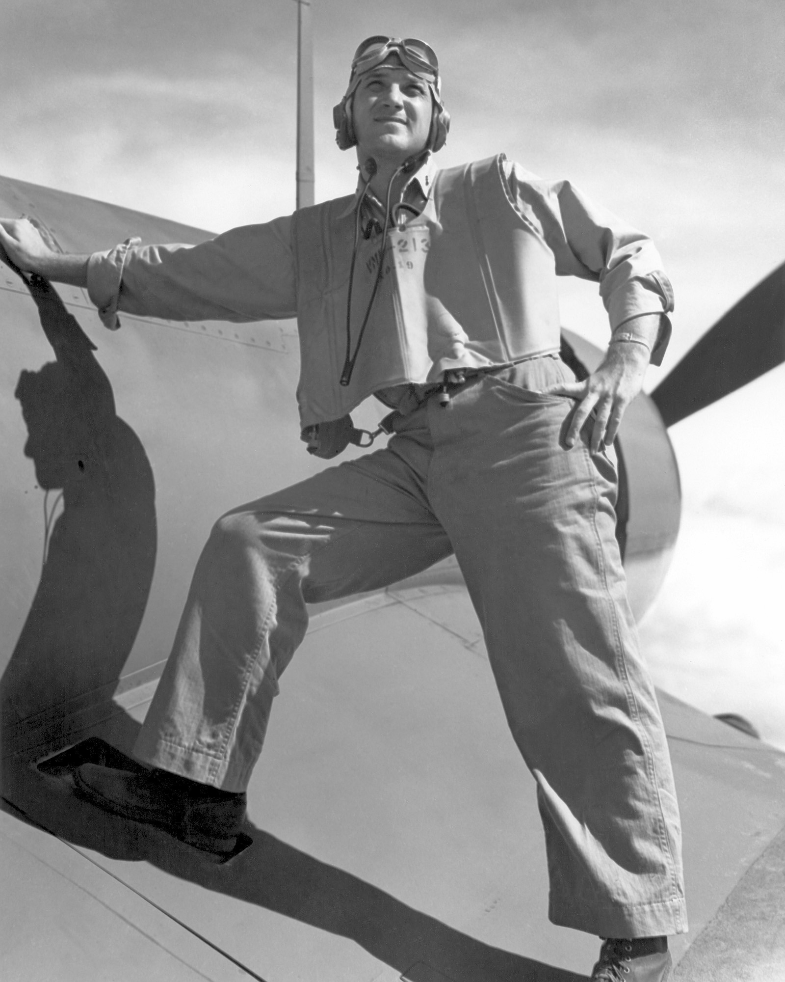 World War II era photograph of US Marine Corps Major Gregory Joseph Weissenberger, taken at Henderson Field, Guadalcanal, June 1943. Major Weissenberger is a flying ace credited with 5 kills.